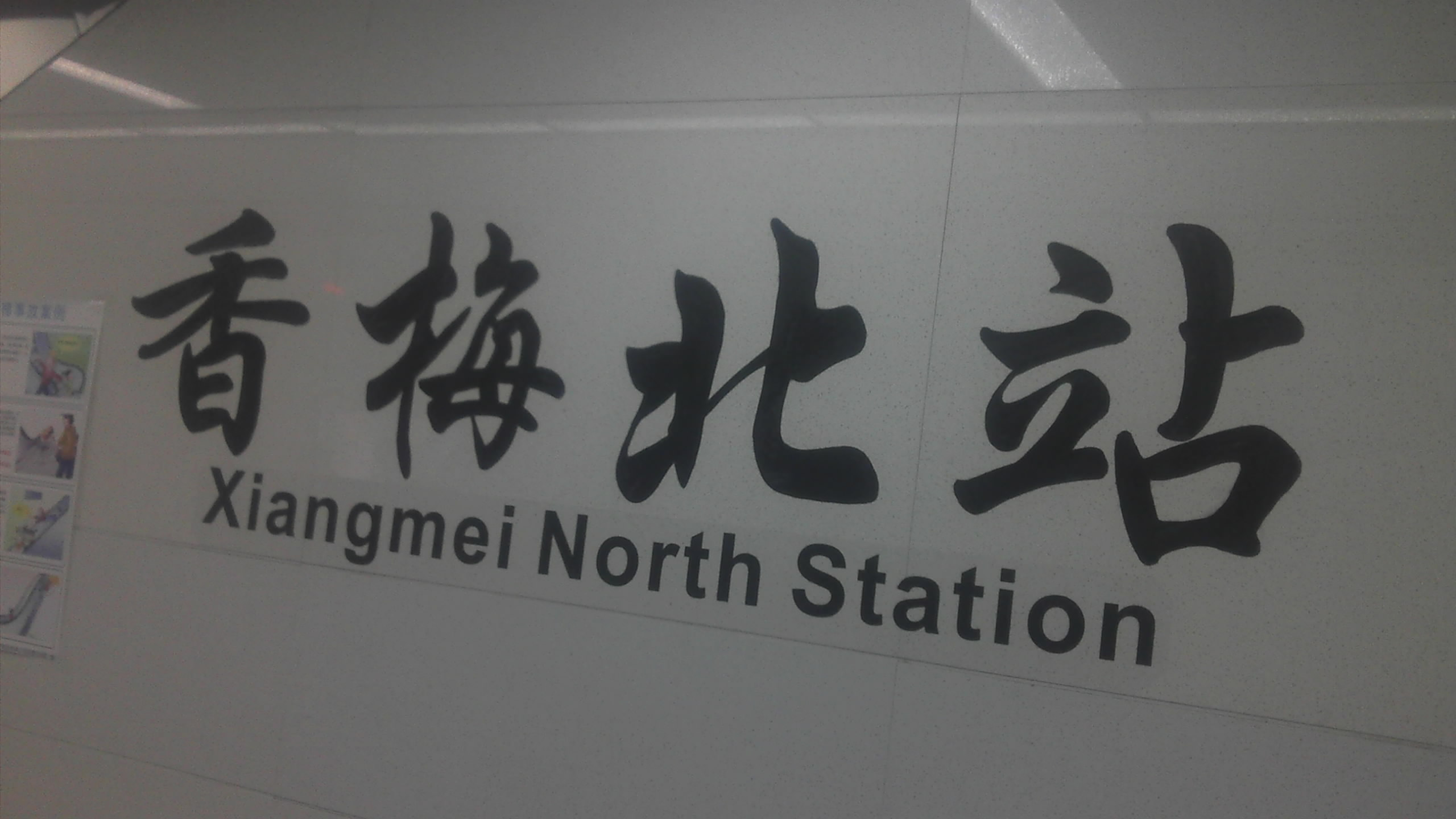 This photo was taken as Oct 16, 2011.